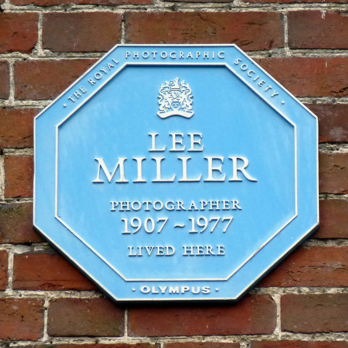 Plaque of Lee Miller.